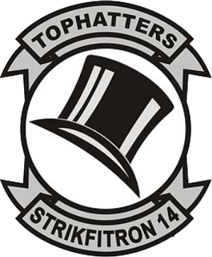 Insignia of the U.S. Navy Strike Fighter Squadron 14 (VFA-14) "Tophatters".